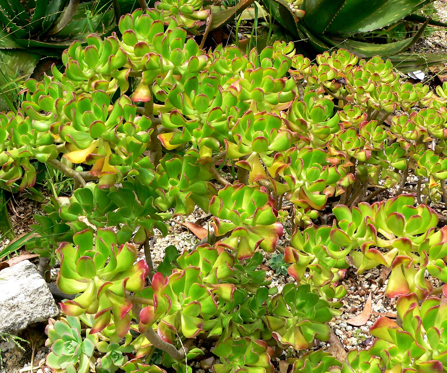 Photo of Sedum dendroideum at the San Francisco Botanical Garden